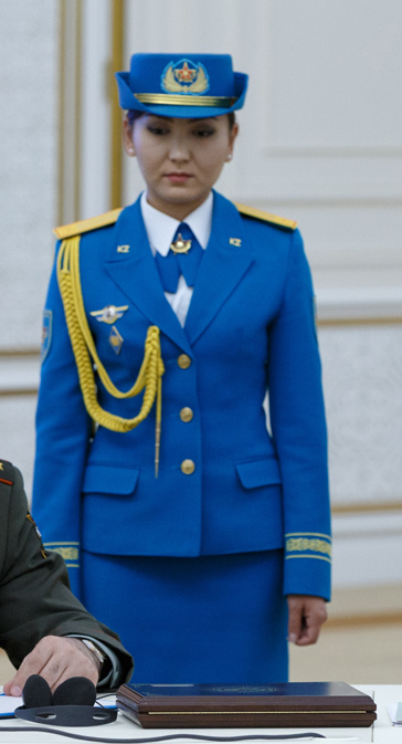 Tajik Defense Minister Sherali Mirzo in Astana.